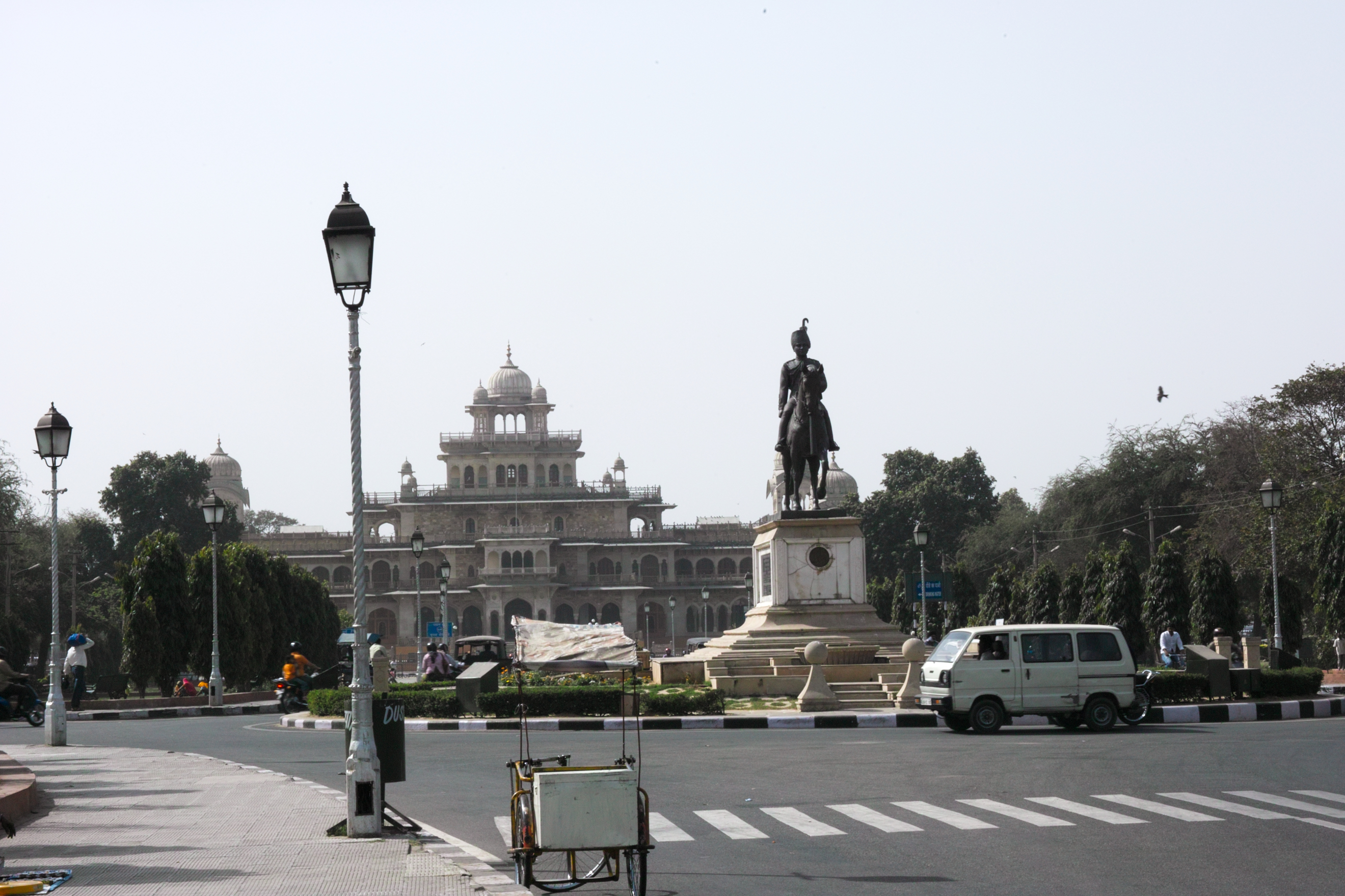 View on Central Museum, Jaipur, comming from the Pink City. Left hand Jaipur Zoo, right hand Ram Niwas Garden.